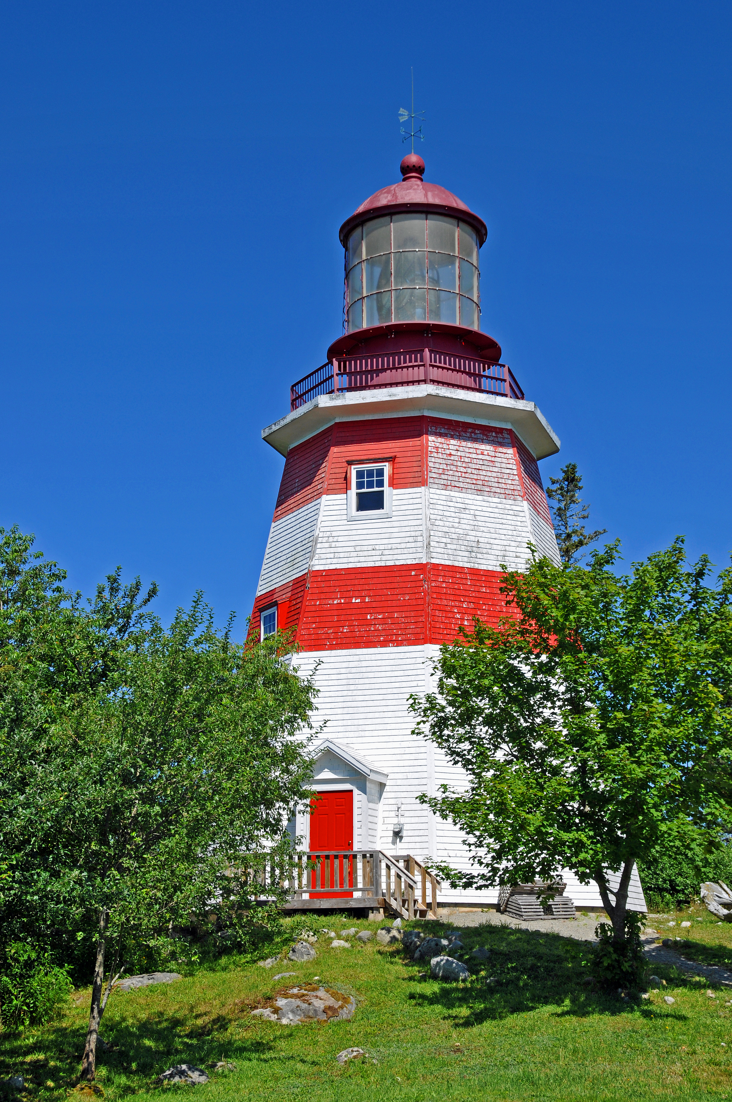 Seal Island Lighthouse Museum (I have never seen it open), Barrington, NS You can climb to the 1907 iron lantern which sits atop a replica of the original 1831 lighthouse on Seal Island. Inside the lantern visitors get a lightkeeper's view of the jewel-like second order Fresnel lens which was the lens from the original lighthouse. The museum contains displays about the area's lightkeeping families, and the shipwrecks that made Seal Island a graveyard in the days of wooden sailing ships. You get an excellent view of the seacoast from the top of the lighthouse.